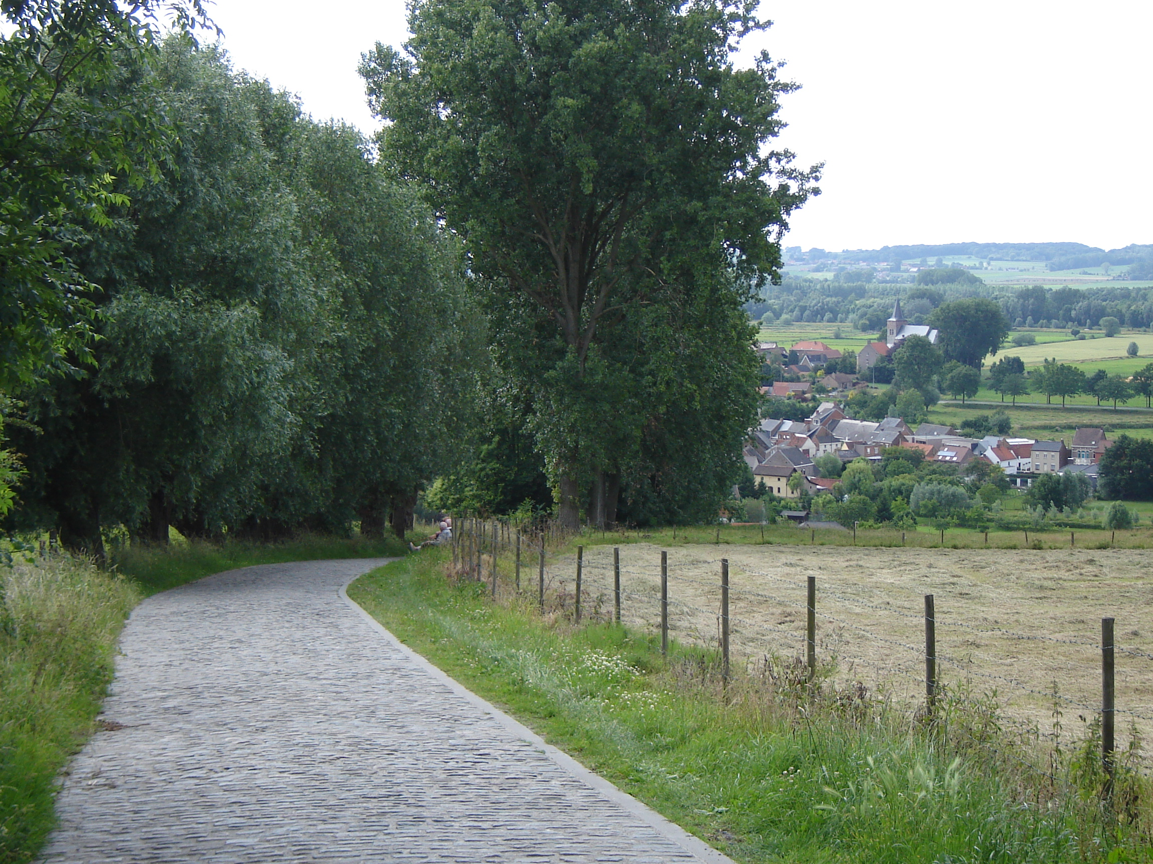 View on the village of Melden from the Koppenberg hill. Melden, Oudenaarde, East Flanders, Belgium